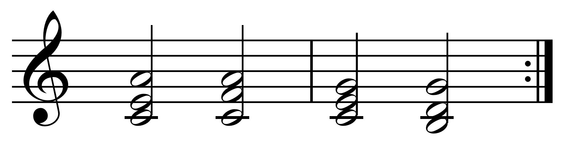 vi-IV-I-V chord progression in C. Created by Hyacinth (talk) 23:40, 25 March 2010 using Sibelius 5.